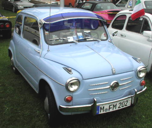 Fiat 600